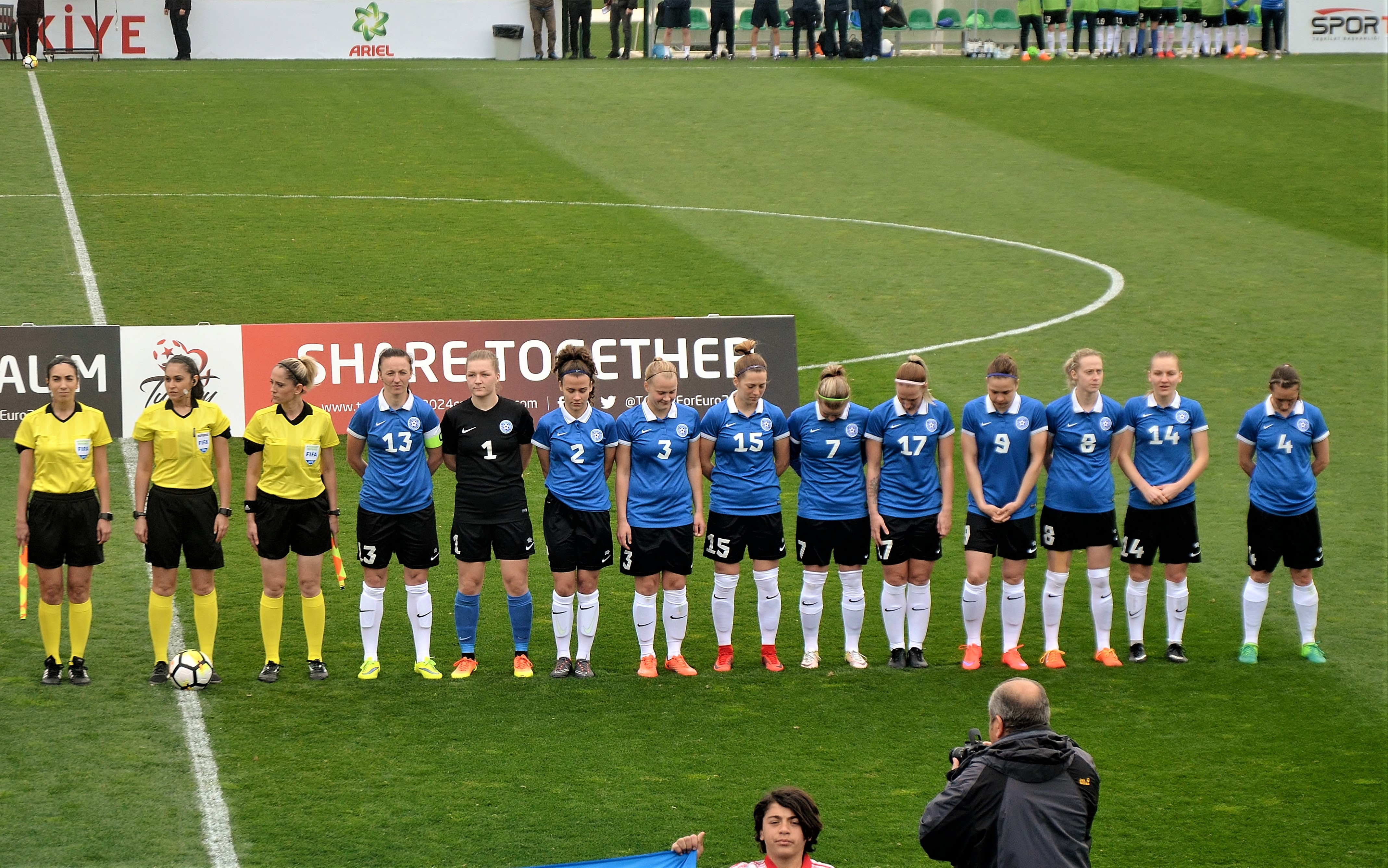 Estonia women's national football team in the friendly match against Turkey at TFF Riva Facility on 7 April 2018.